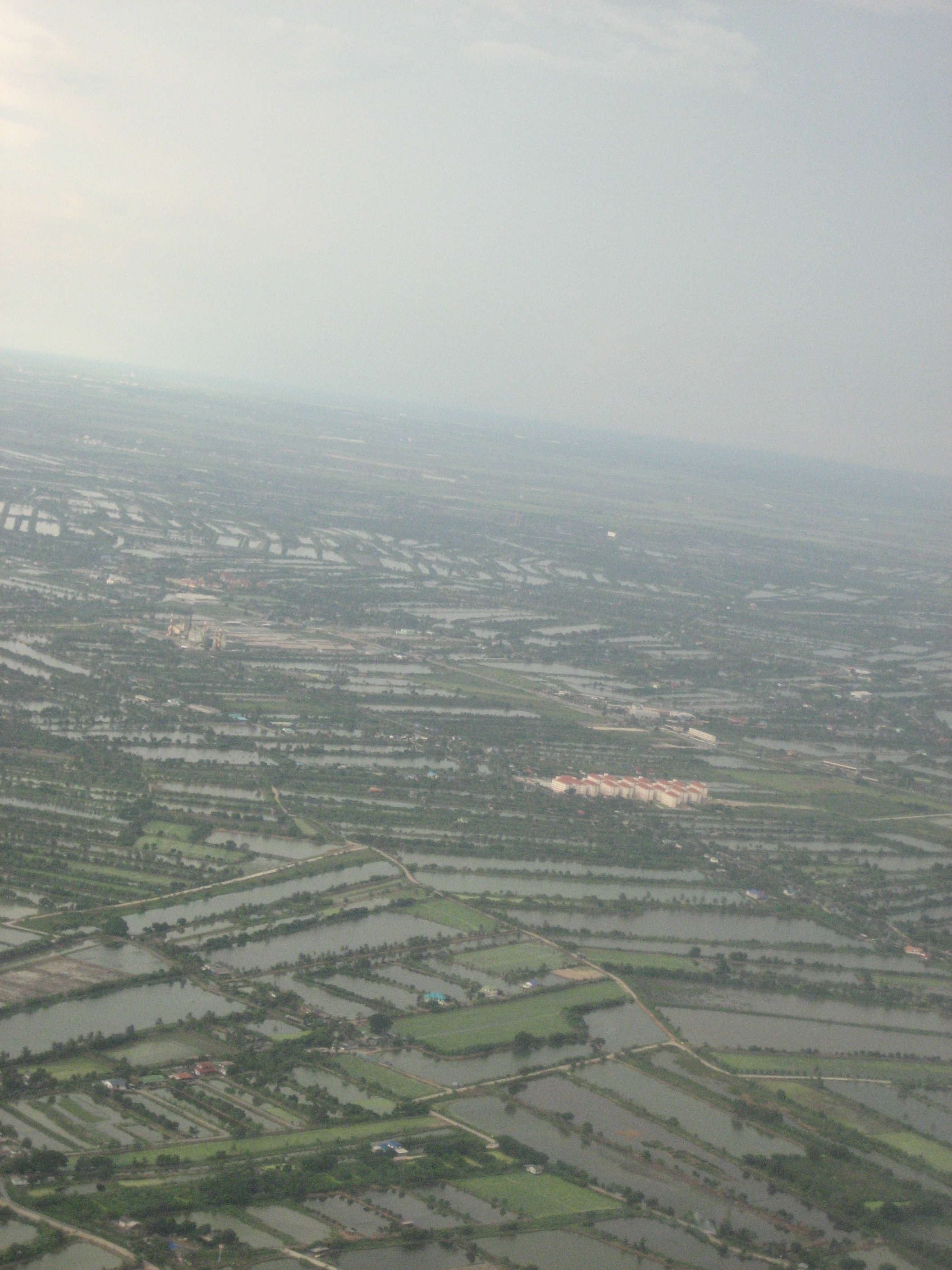 Aerial view of rural Bangkok